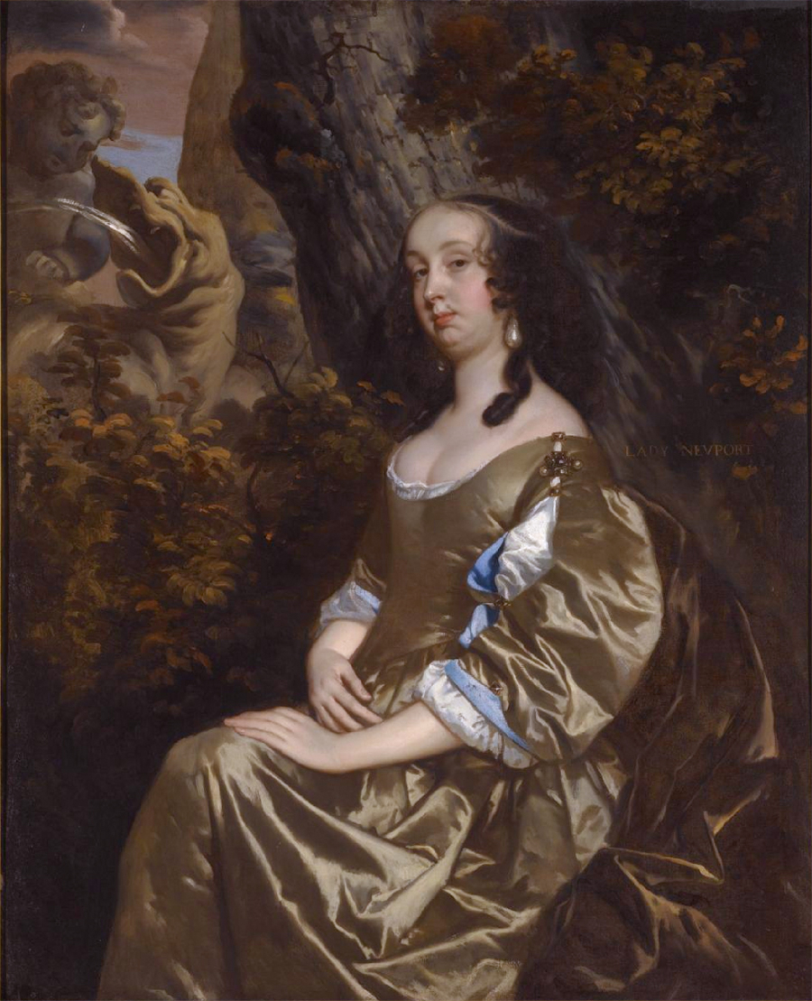 Diana Russel, Lady Newport (1624-1694)